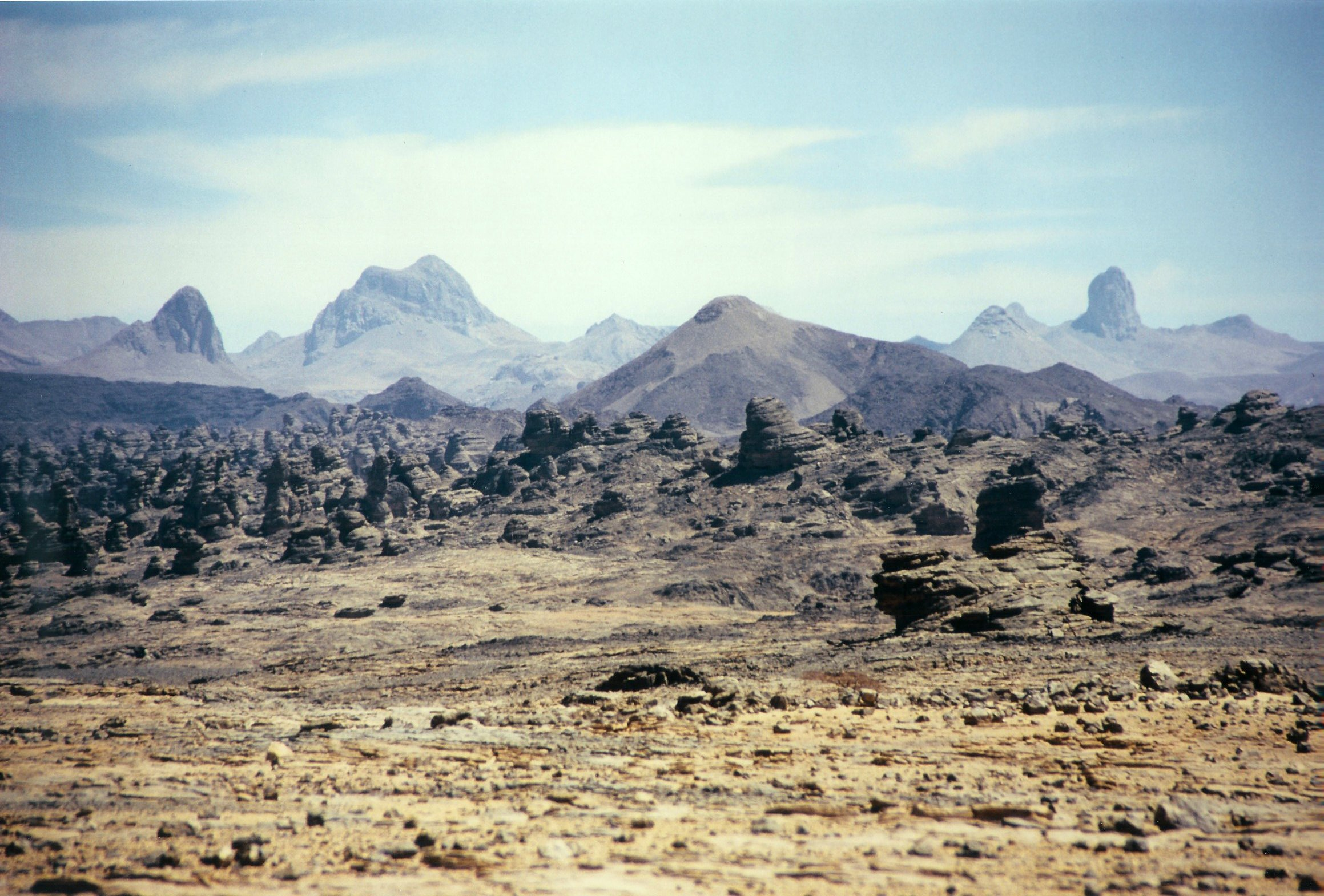 Landscape in the Tibesti mountains east of the village of Bardai